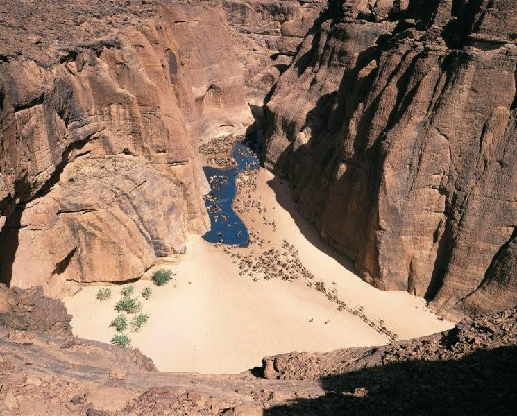 Stone walled canyon in Chad.